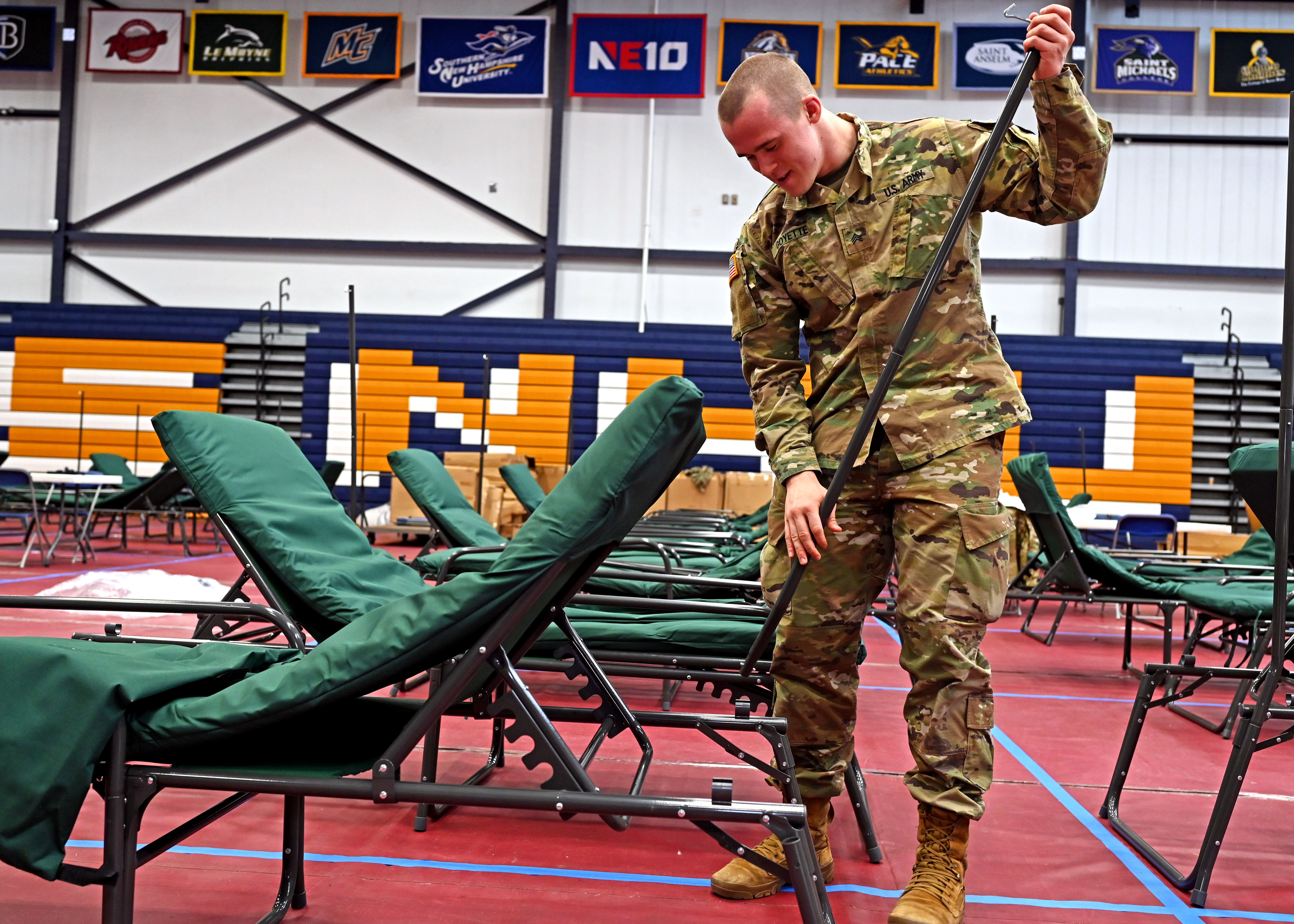 Sgt. Ryan Goyette, 197th Field Artillery Brigade, New Hampshire Army National Guard, sets up one of approximately 250 beds at the Stan Spirou Field House at Southern New Hampshire University in Hooksett, Mar. 23. The facility will serve as an alternate care "surge" site to augment area hospitals, if necessary, due to the COVID-19 pandemic. (U.S. Air National Guard Photo by Staff Sgt. Charles W. Johnston)